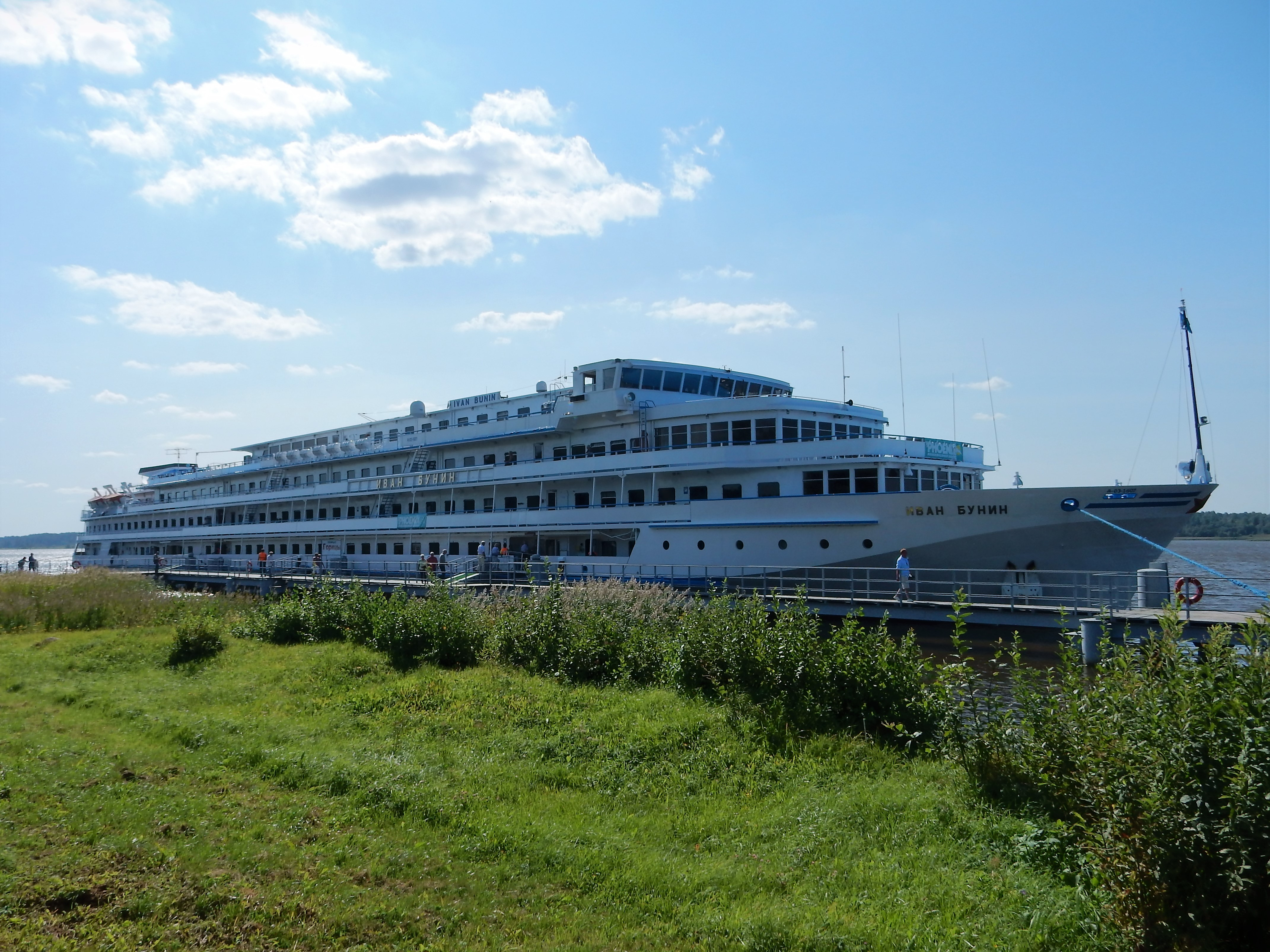 Volga riverboat Ivan Bunin